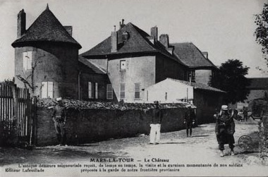 The lorainer château of Mars-la-Tour viewed circa 1913.